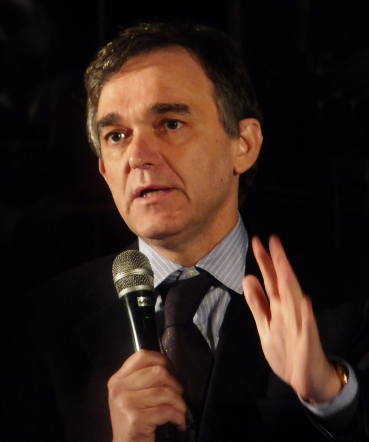 Enrico Rossi, Italian Politician from Tuscany